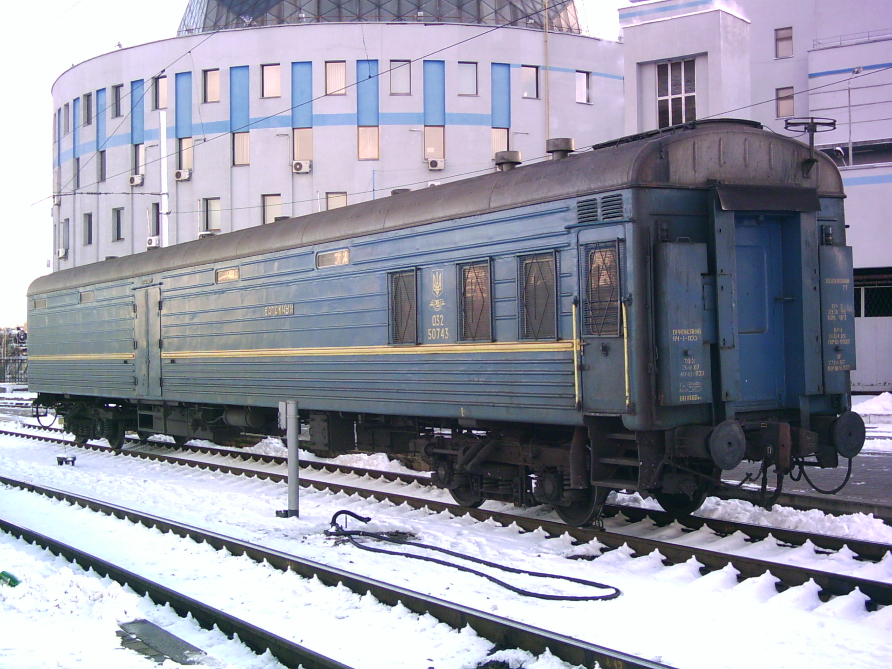 Baggage waggon.